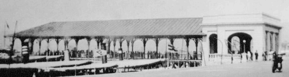 Source: MMIS (HK Government archives) image taken in 1930 by unknown author, and now out of copyright per Hong Kong Copyright Ordinance